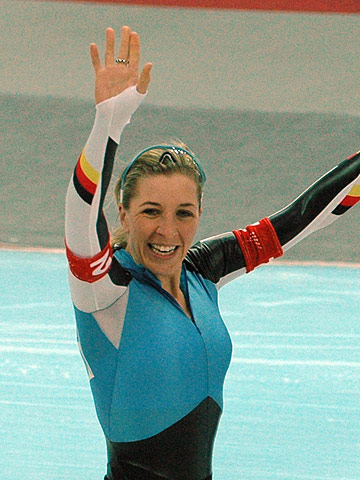 Anni Friesinger, Germany, at the 2006 Winter Olympics in Torino.